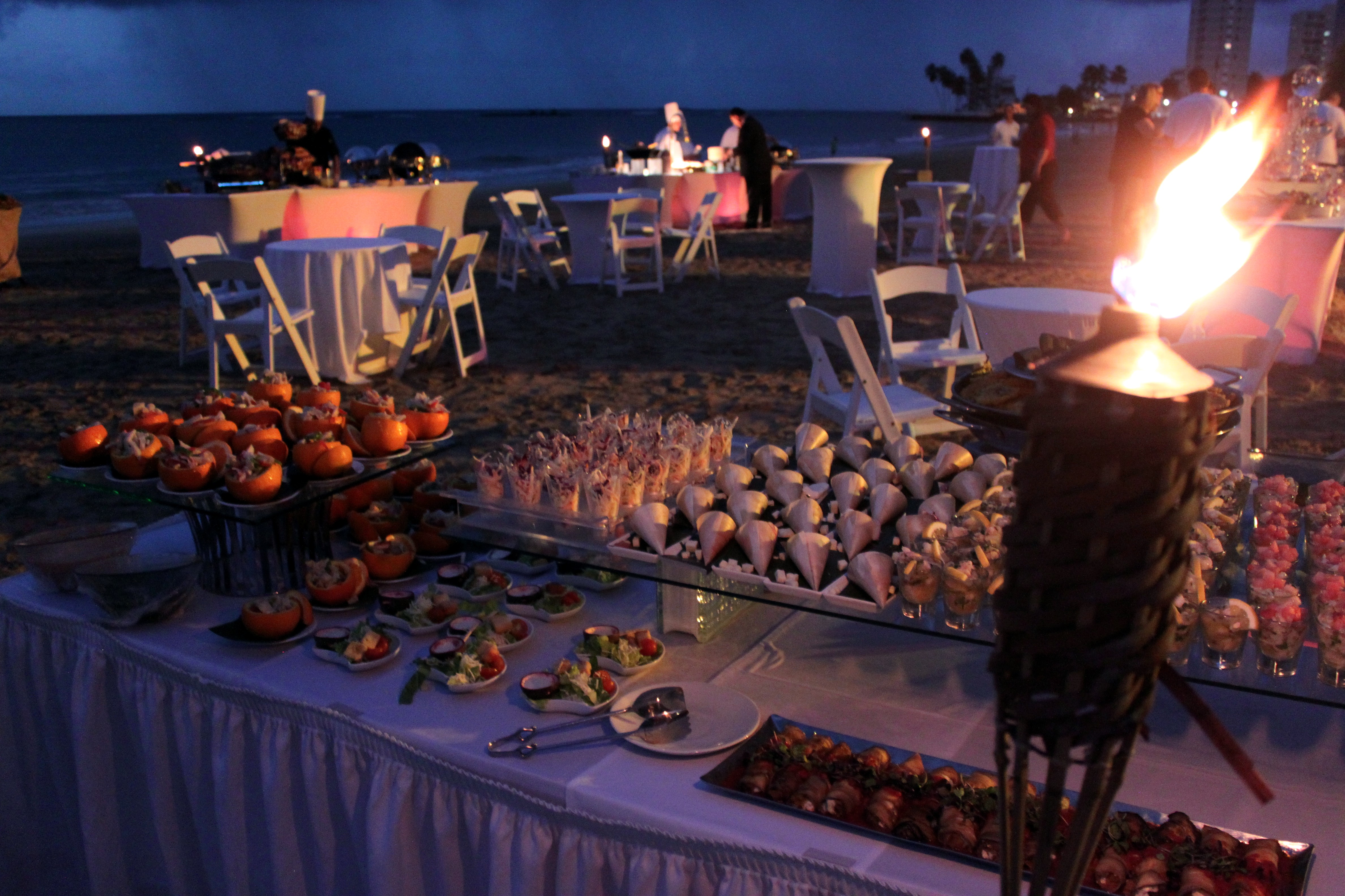 Beach Party in Isla Verde, San Juan, Puerto Rico